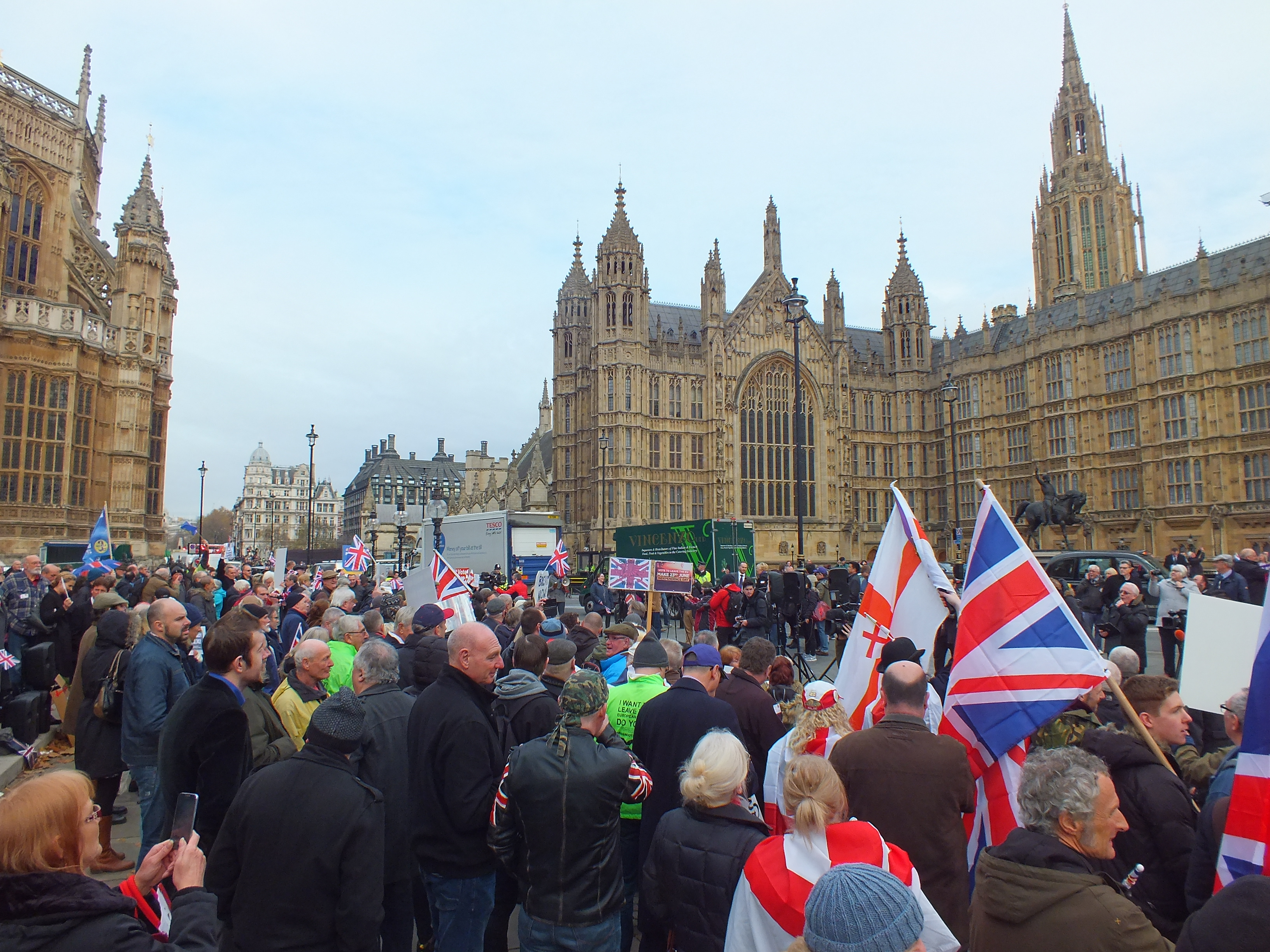 Photograph of a Brexit rally outside of Parliament 23/11/2016